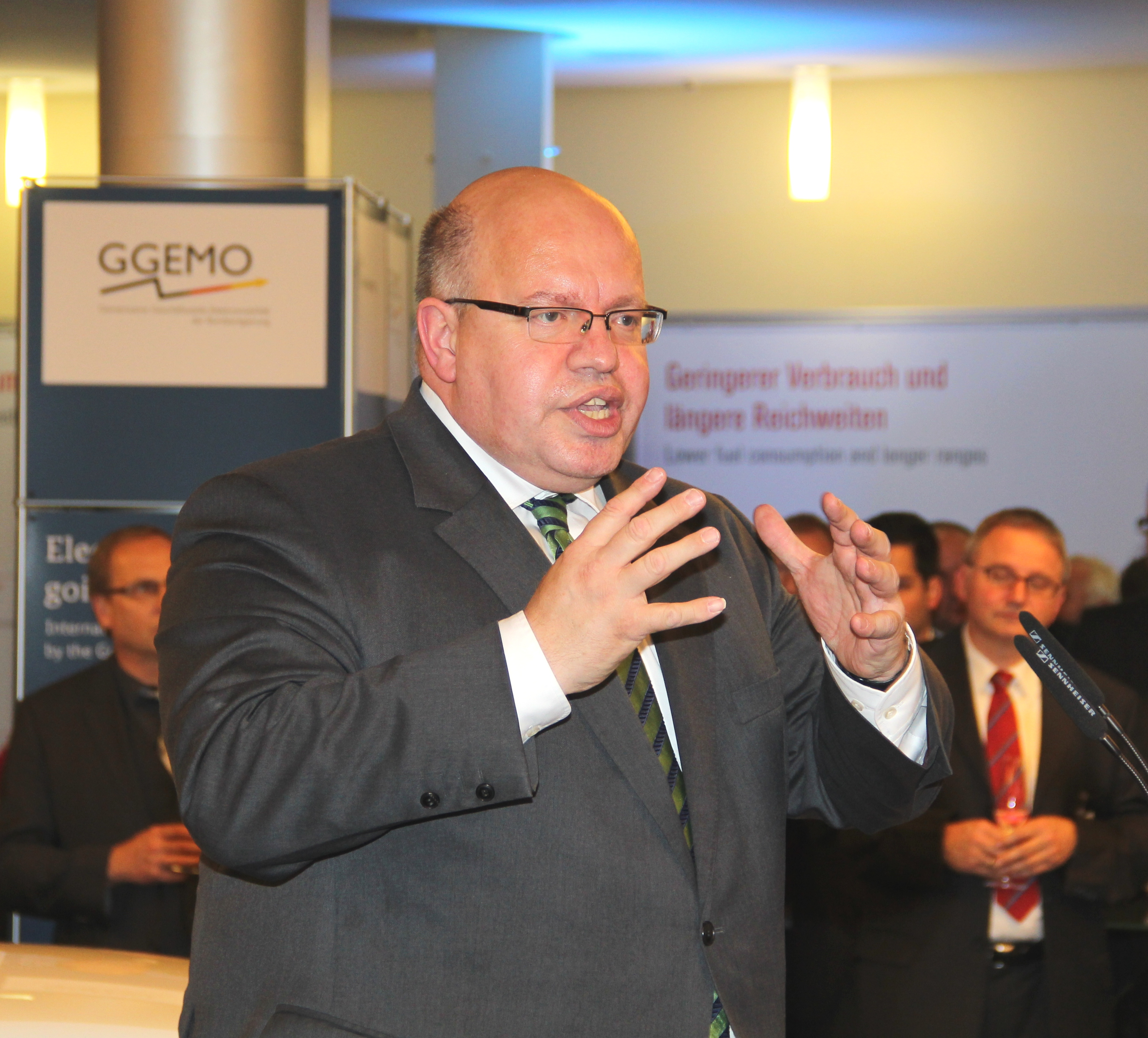 Peter Altmaier, Germany's Federal Minister for Environment, at the Electromobiliy Summit in Berlin 2013